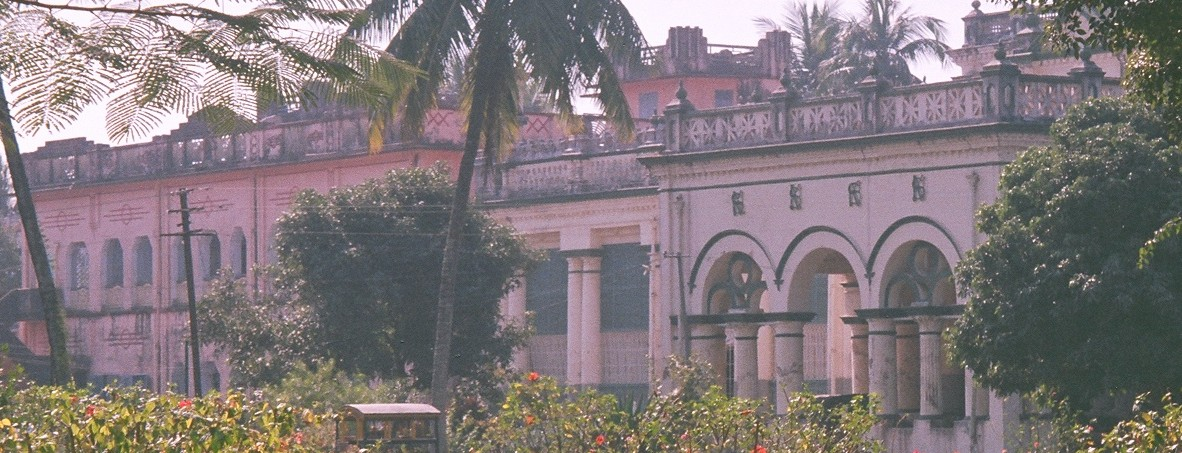 Picture of Navaratan and New Pucca